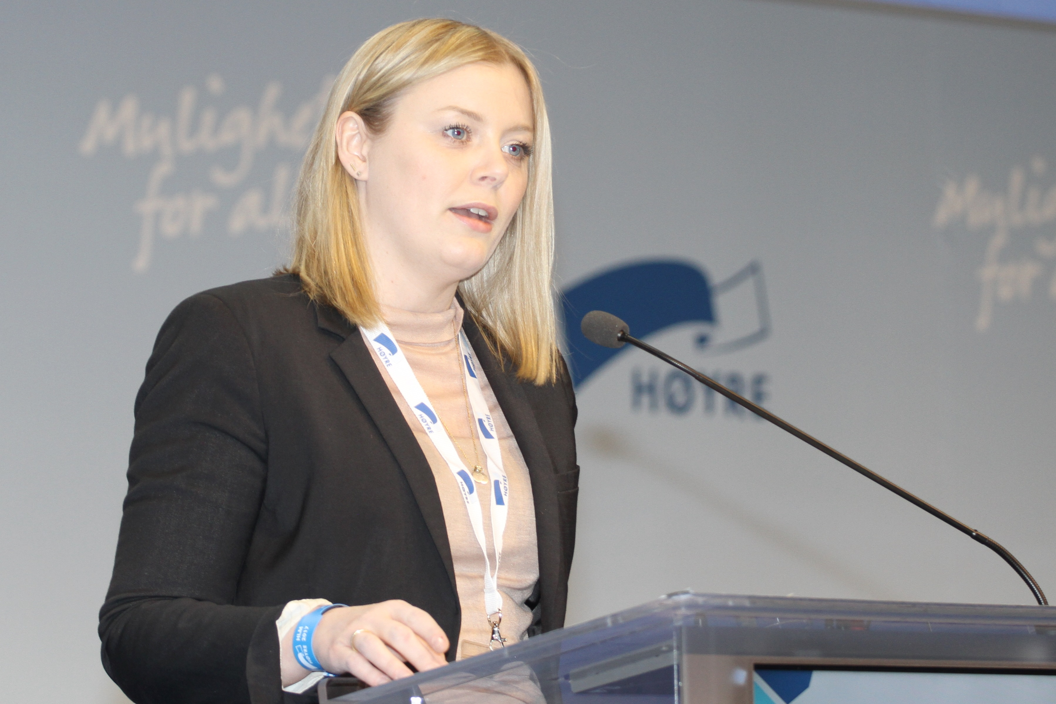 Tina Bru